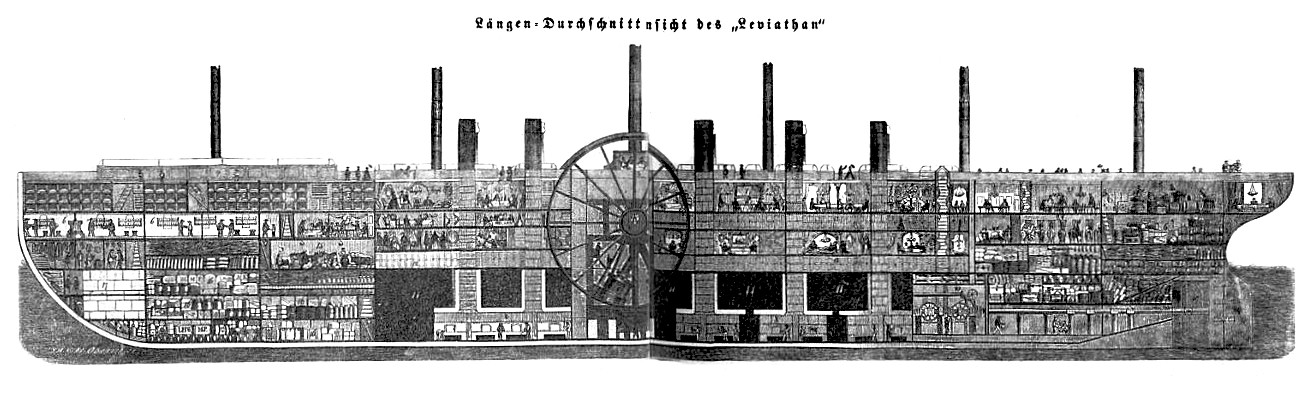 caption: "1. Der große oberste Salon – 2. Der Haupt-Salon. – 3. Die Cajüte des Capitäns. – 4. Das sogenannte Vorder-Castell – 5. Schlafsaal der Matrosen[. – 6.] Speisesaal derselben. – 7. Dampf-Cylinder für die Schaufelräder. – 8. Dampfkessel für dieselben. – 9. Dampfkessel für die Schraube. – 10. Dampfschraubenmaschinen. – 11. Kohlen. – 12. Schlafsäle und Wohnungen für Passagiere. – 13. Schaufelrad. – 14. Speisesaal für untere Beamte u. s. w. – 15. Vieh zum [--]hten für die Passagiere. – 16. Cargo (Frachtgüter). – 17. Wasserbehälter. – 18. Vorrathsräume für Taue, Ketten u. s. w. – 19. Dampfschraube. – 20. Speisesaal für obere Beamte Officiere u. s. w. – 21. Schlafsäle für Maschinisten und Ingenieurs. – 22. Car[--] Schiffswinden u. s. w. – 23. Ganz hinten unter dem Steuerrad Officiers-Salon. – 24. Stallung für Pferde."